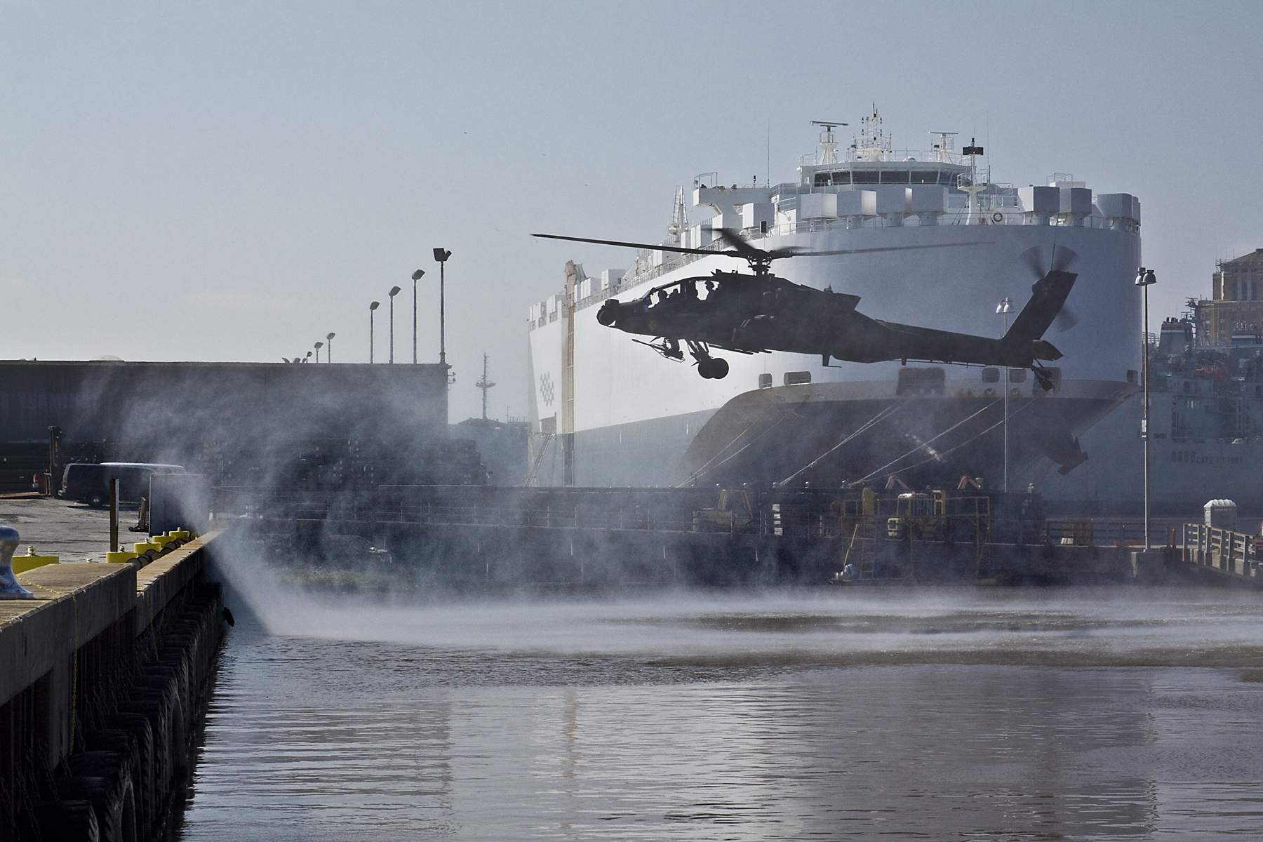 An AH-64D Apache Attack helicopter from 1st Attack Reconnaissance Battalion, 227th Aviation Regiment, 1st Air Cavalry Brigade, 1st Cavalry Division, dusts the wharf at the Port of Beaumont upon its landing, March 17. The aircraft will be prepped and loaded on to a cargo ship and travel to Kuwait. This is one of the final steps for the 1st Air Cav. Bde., before they make the trip to Iraq in support of Operation Iraqi Freedom.